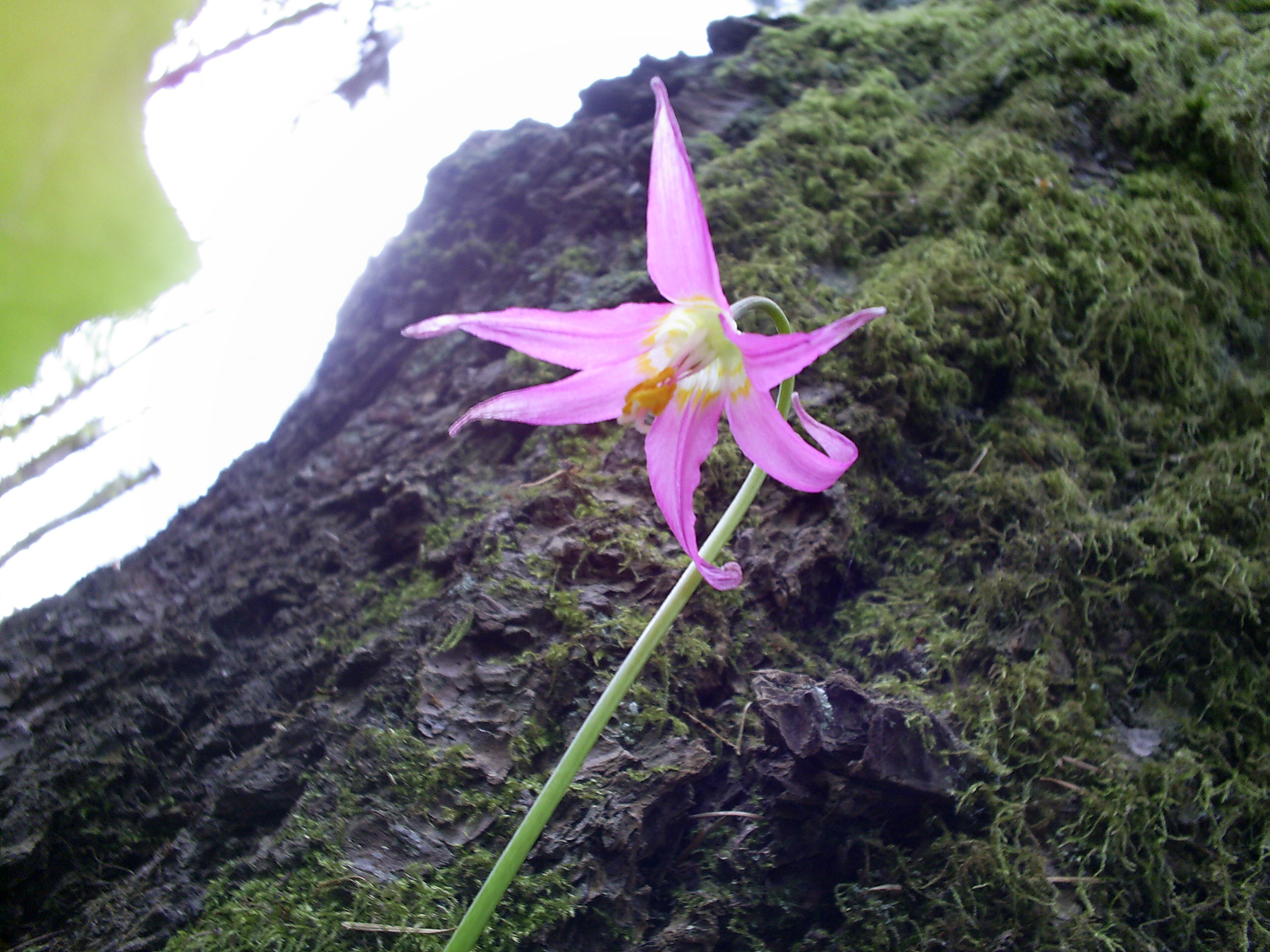 Pink Fawn Lilly (Erythronium revolutum) up against a Douglas Fir Tree in Strathcona Park, Myra Falls